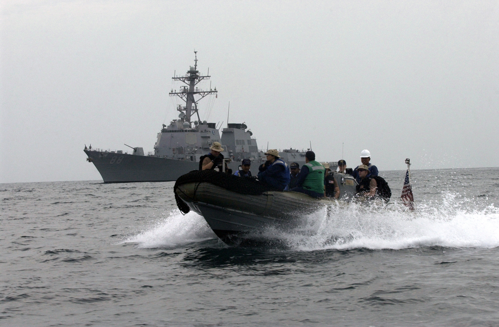 Sailors assigned to the guided missile destroyer USS Preble (DDG 88) and the Pakistani Navy, prepare to conduct a ship boarding in a simulated maritime interdiction operation (MIO) during exercise Inspired Siren